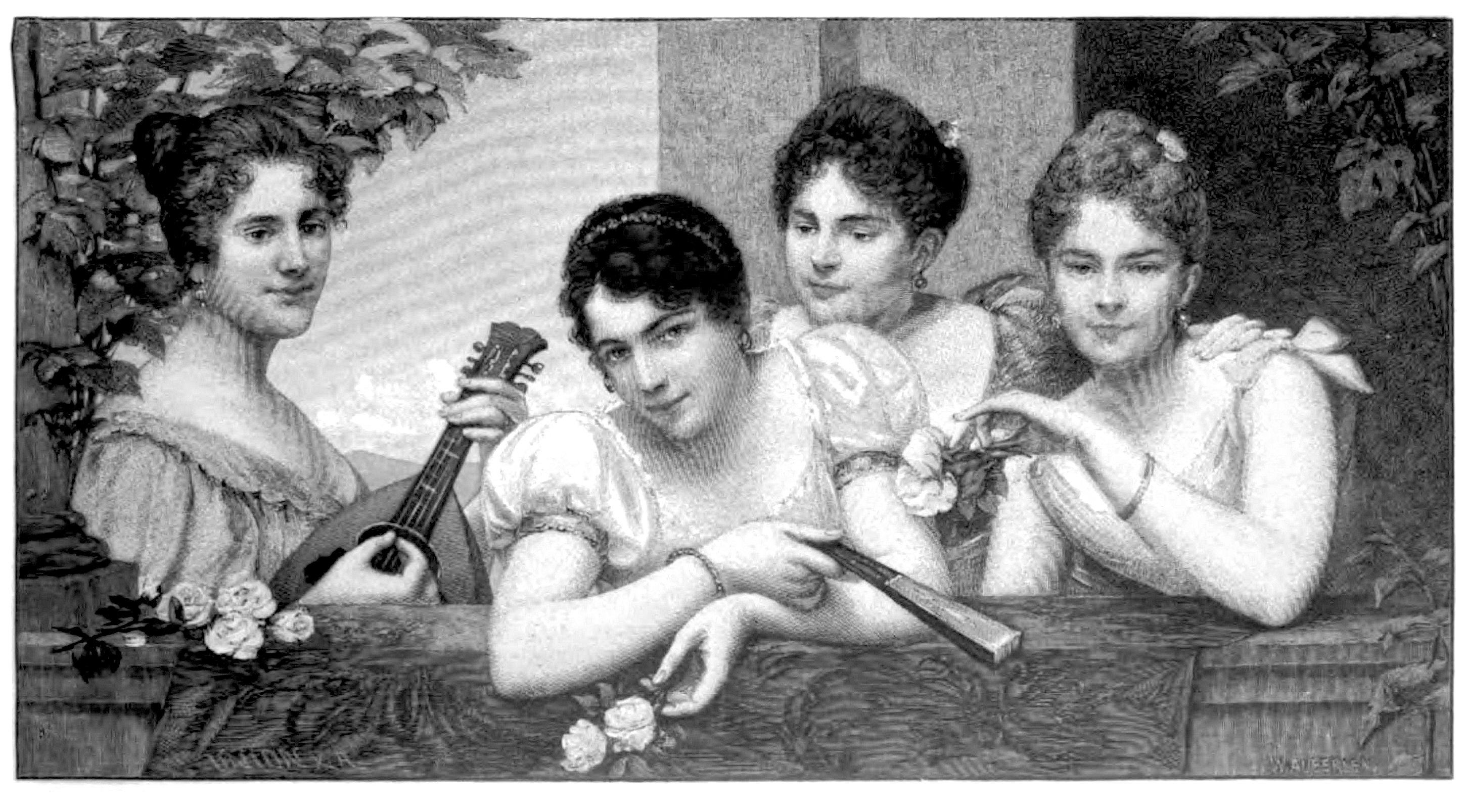 caption: "Ein vierblättriges Kleeblatt.Nach einem Gemälde von W. Auberlen."